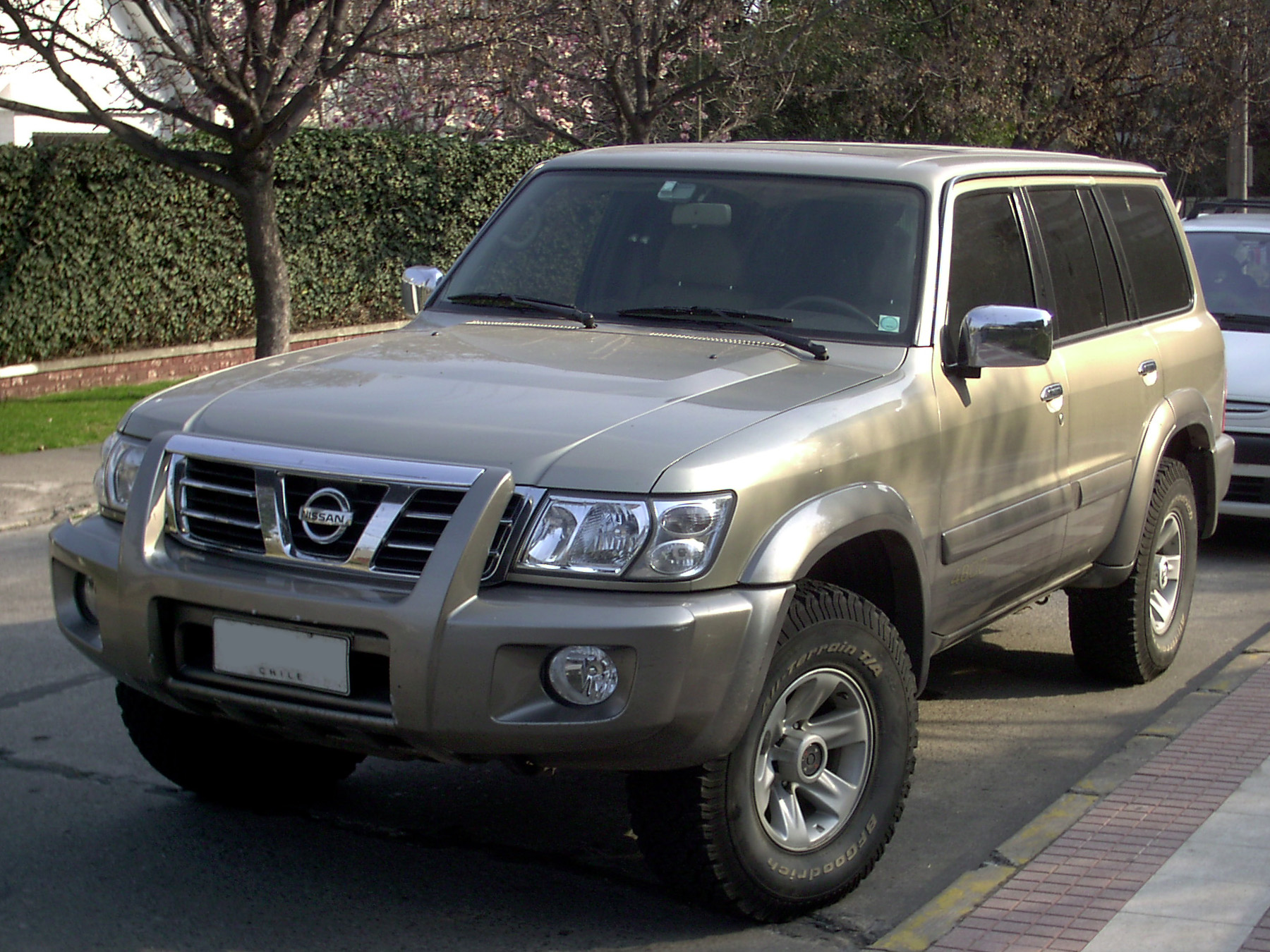 Nissan Patrol GXR 4800 2002